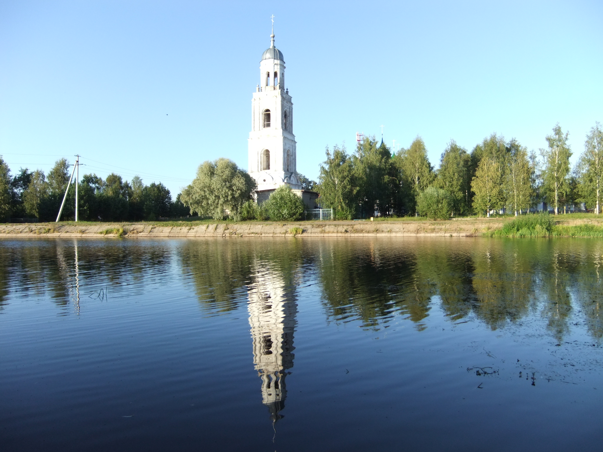 The bell tower of the Trinity Cathedral of Poshekhoney, seen across the Pertomka River